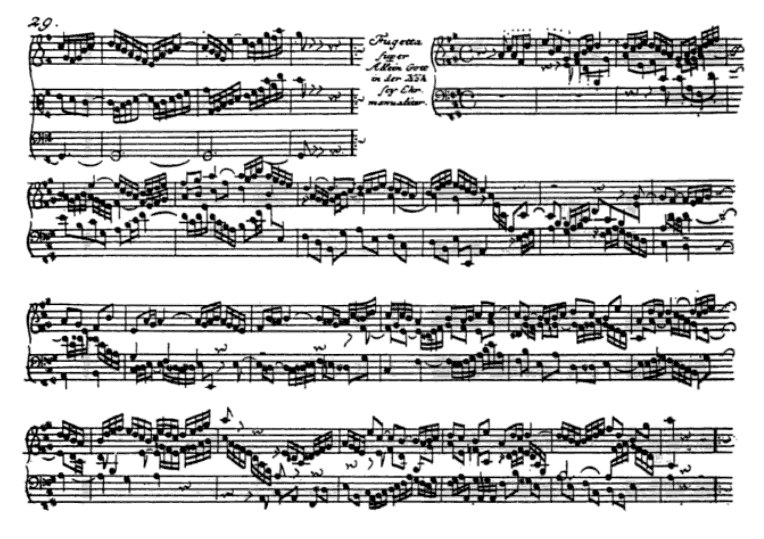 Page of original print of Clavier-Übung III showing the end of BWV 676 and the whole of BWV 677